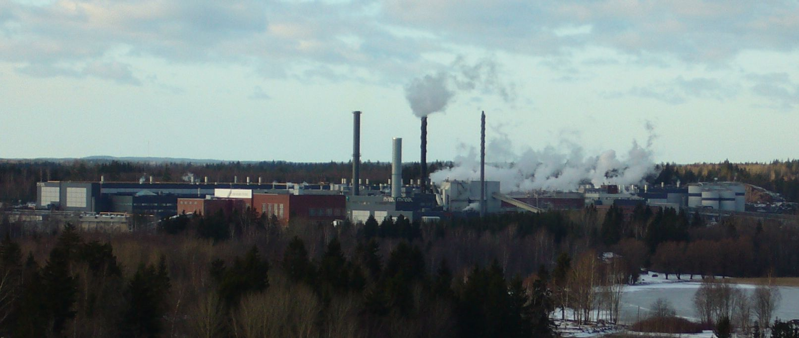 Kirkniemi paper mill in Lohja. Formerly part of M-Real, since 1.1. 2009 part of Sappi Limited.